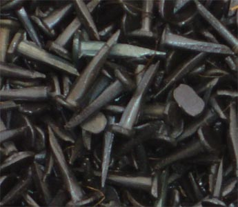 Small nails